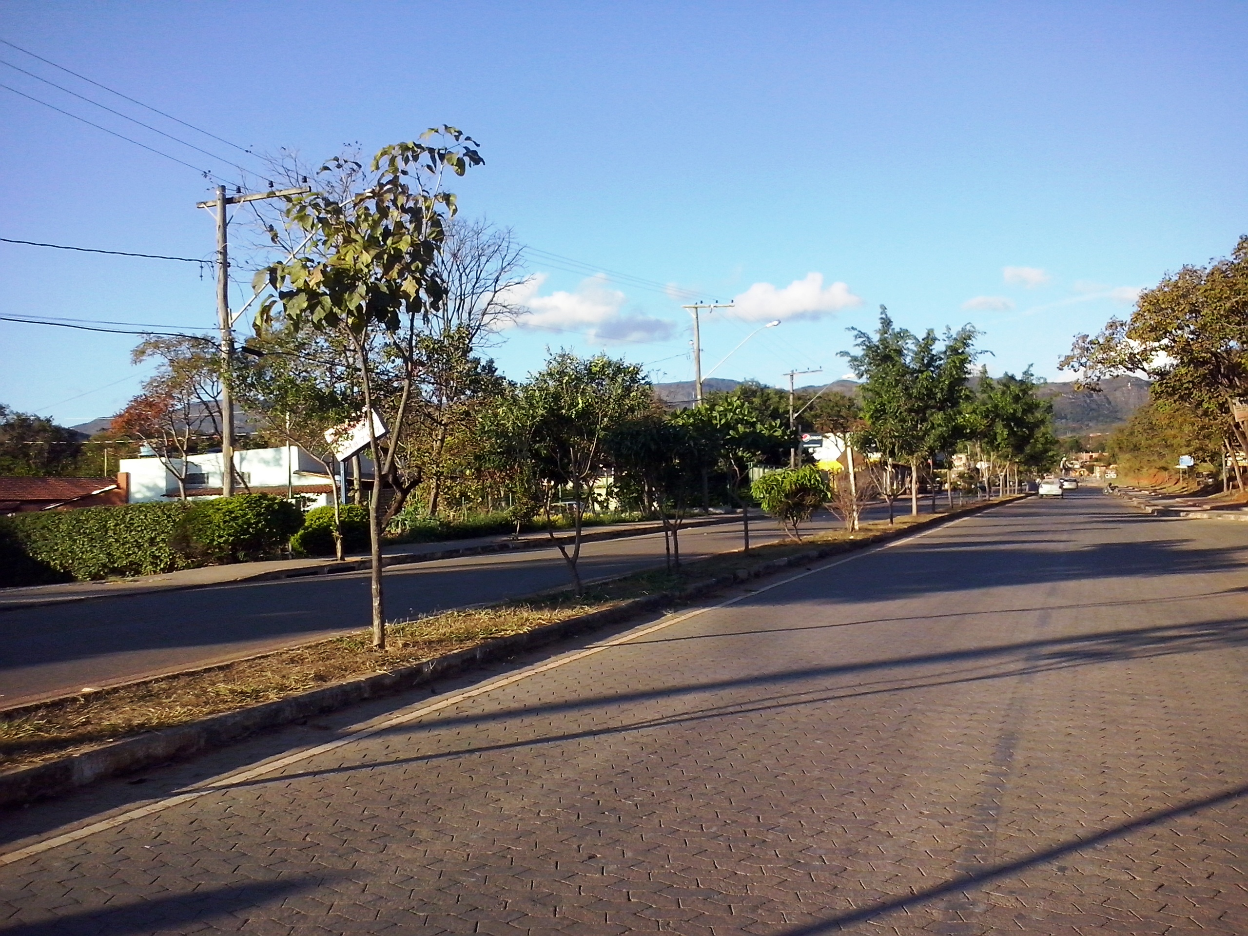 MG-010 in the Cardeal Mota district, in Santana do Riacho, Minas Gerais, Brazil.